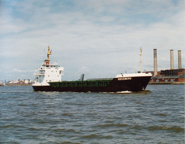 Maritime Parade 1988 - MV Kiekeberg. This Hamburg-registered vessel is seen passing the chimneys of Clarence Dock Power Station, which have since been demolished (1993-4).